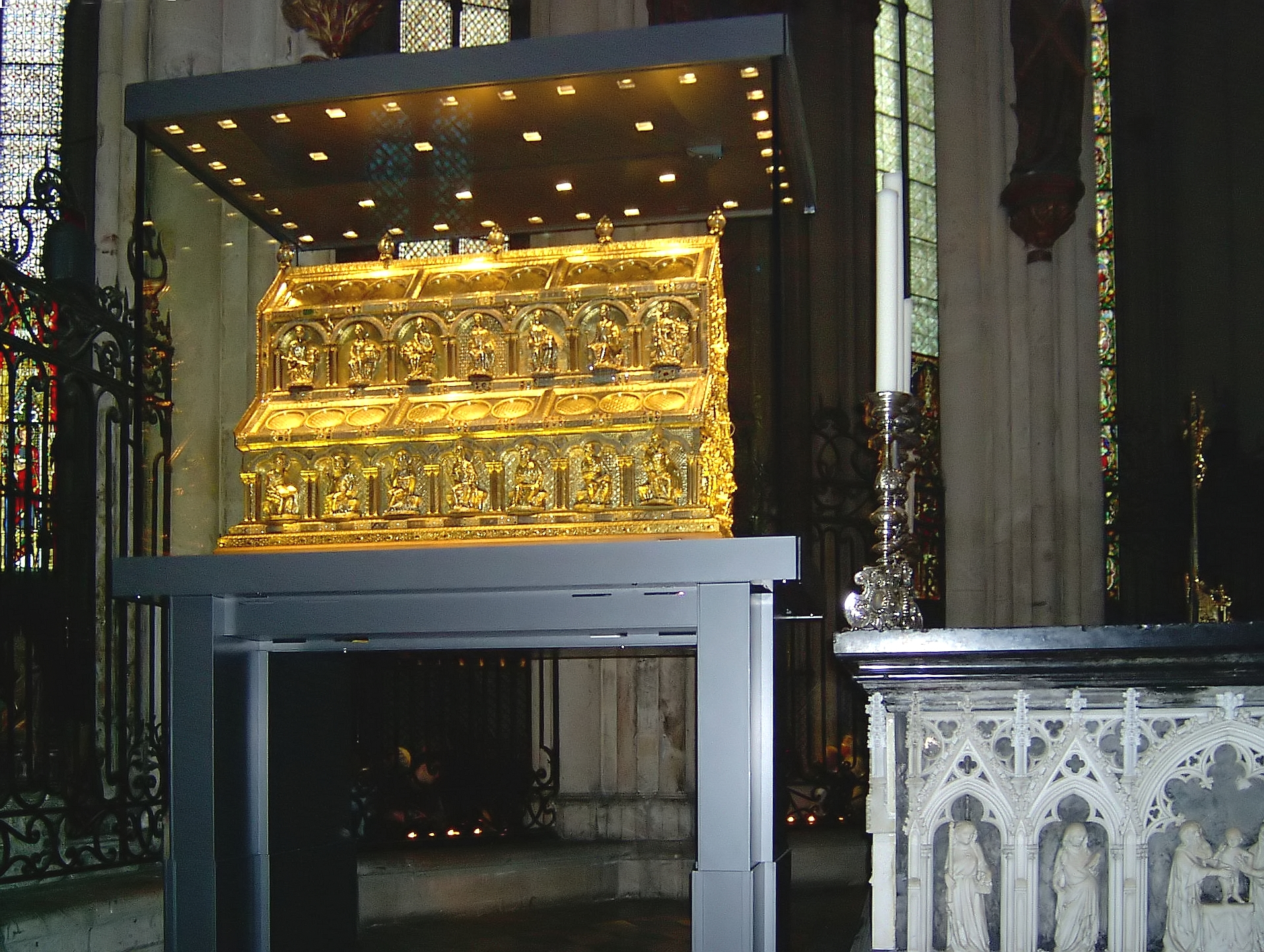 Shrine of the three Magi, Cologne cathedral, Germany